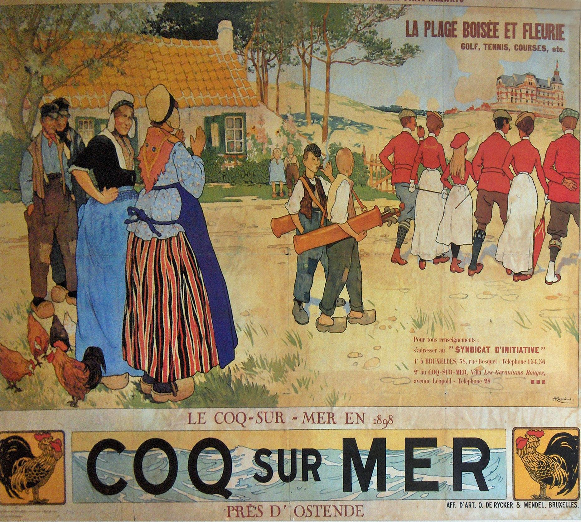 Old poster (1898) of De Haan (Belgium) (French : Le Coq-sur-Mer); private property Distributed by Affiches d'Art O. De Rycker & Mendel, Bruxelles